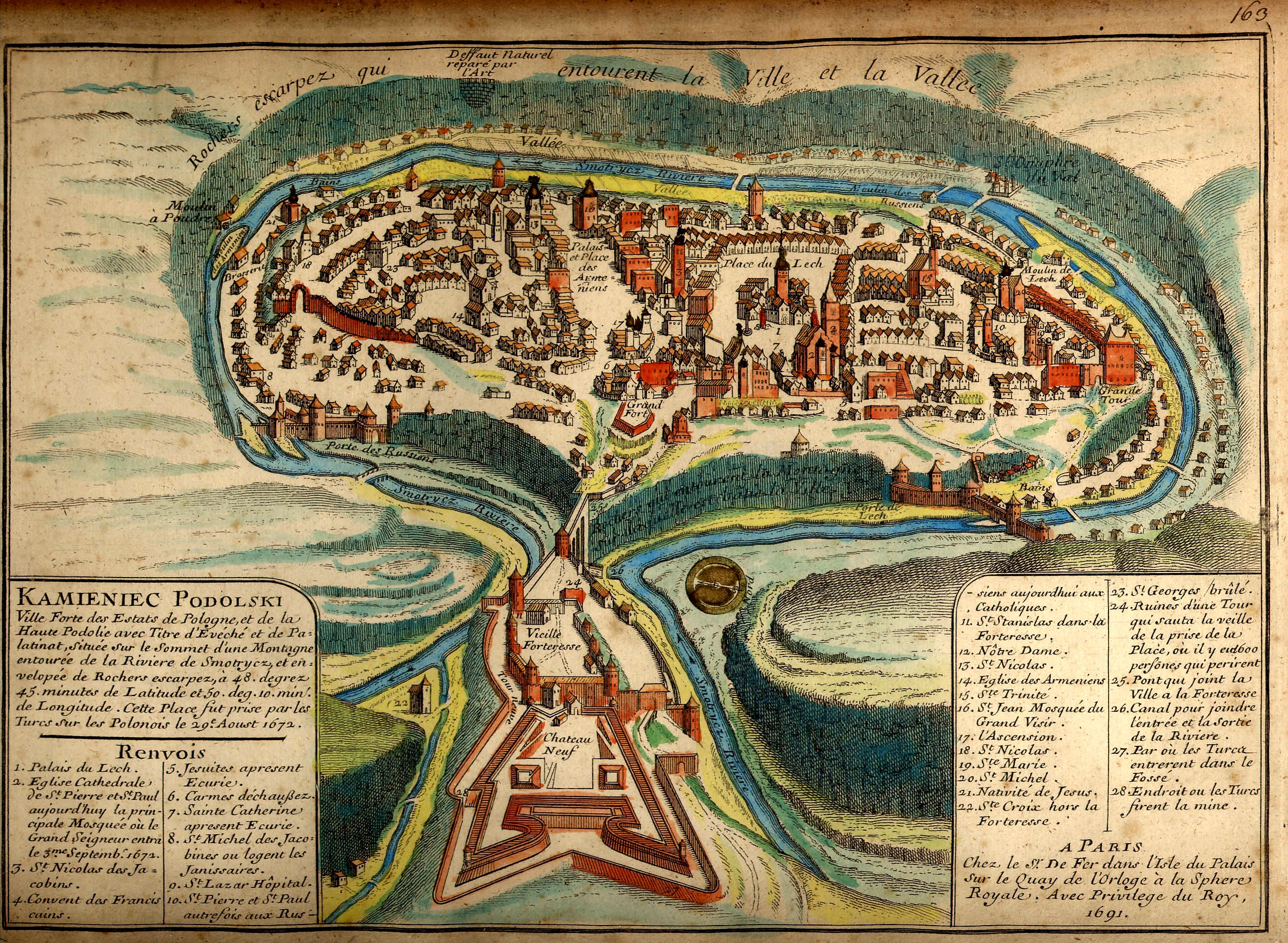 An 1691 French map of the city of Kamianets-Podilskyi, located in western Ukraine. Left-side translation: Kamieniec Podolski [Kamianets-Podilskyi], the fortified city of the Polish state, and of the high Podolia [Podillia] land, with the title of Bishop and Palatinate, is situated on the top of a mountain surrounded by the Smotrycz River [Smotrych] and high rocks located on 48 degrees 45 minutes Latitude and 50 deg. 10 min. Longitude. This palace was taken by the Turks of Poland on the 29th of August, 1672. Right-side translation: In Paris, on the l'Isle du Palais [Island of the Palace] on the royal portion of the Quay de l’orloge [Orloge Quay], with the royalty's privilege, in 1691.